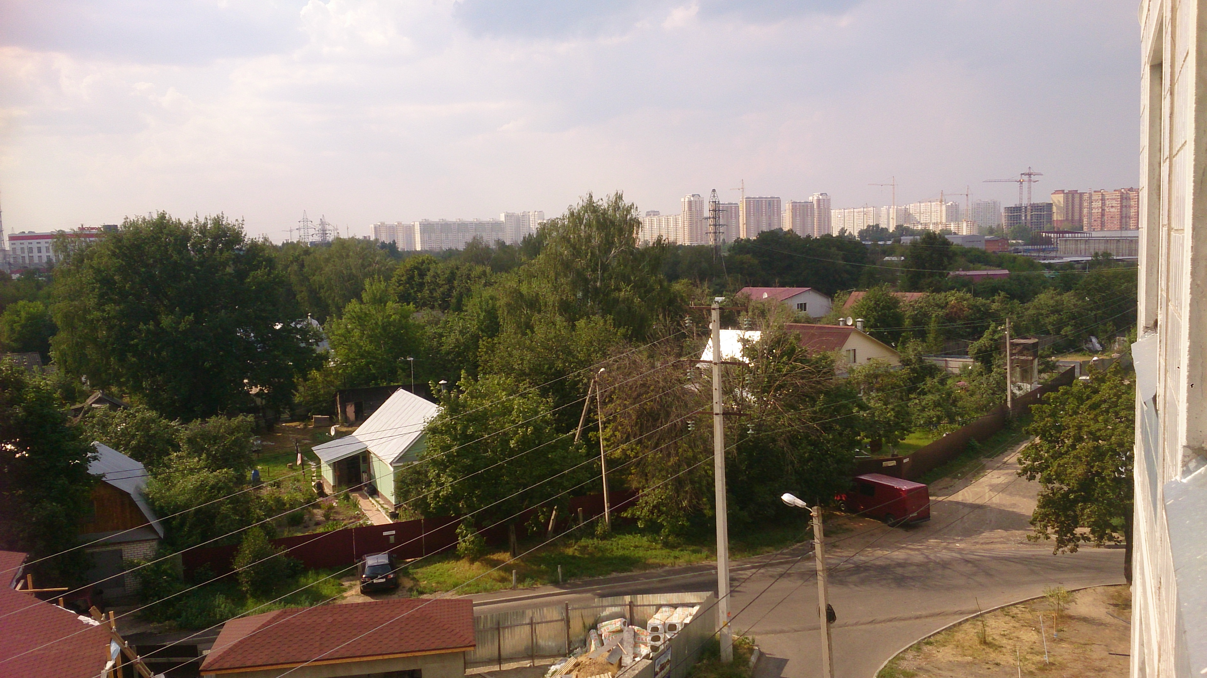 Zheleznodorozhny in July 2014